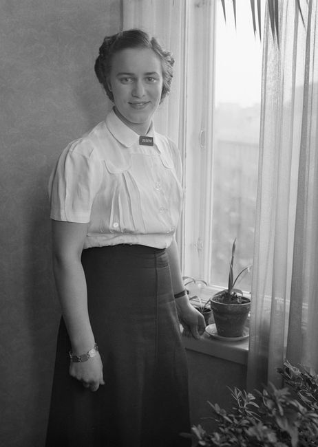 Finnish speed skater Verné Lesche.